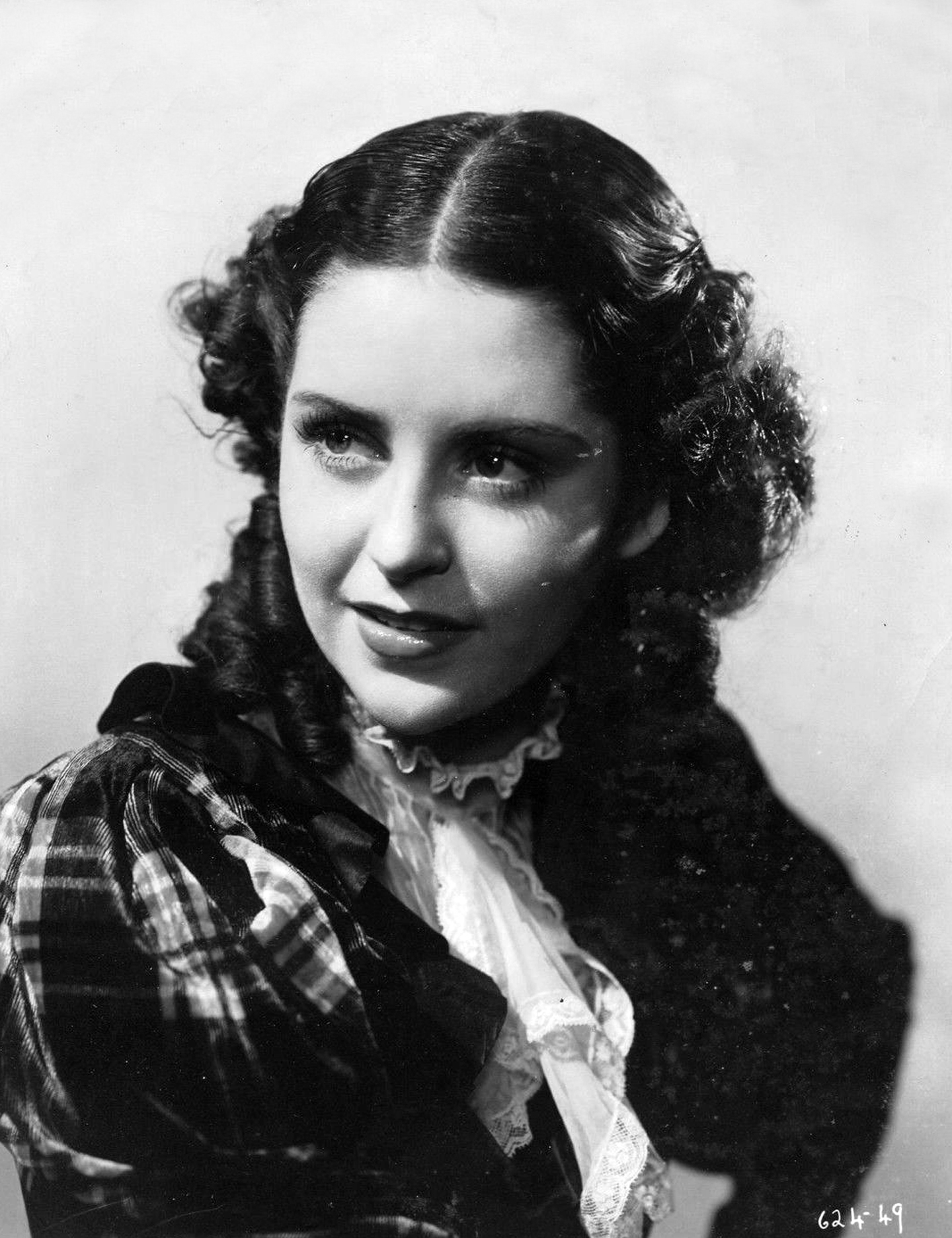 Kay Hughes publicity photo for the American western film Ghost-Town Gold (1936).